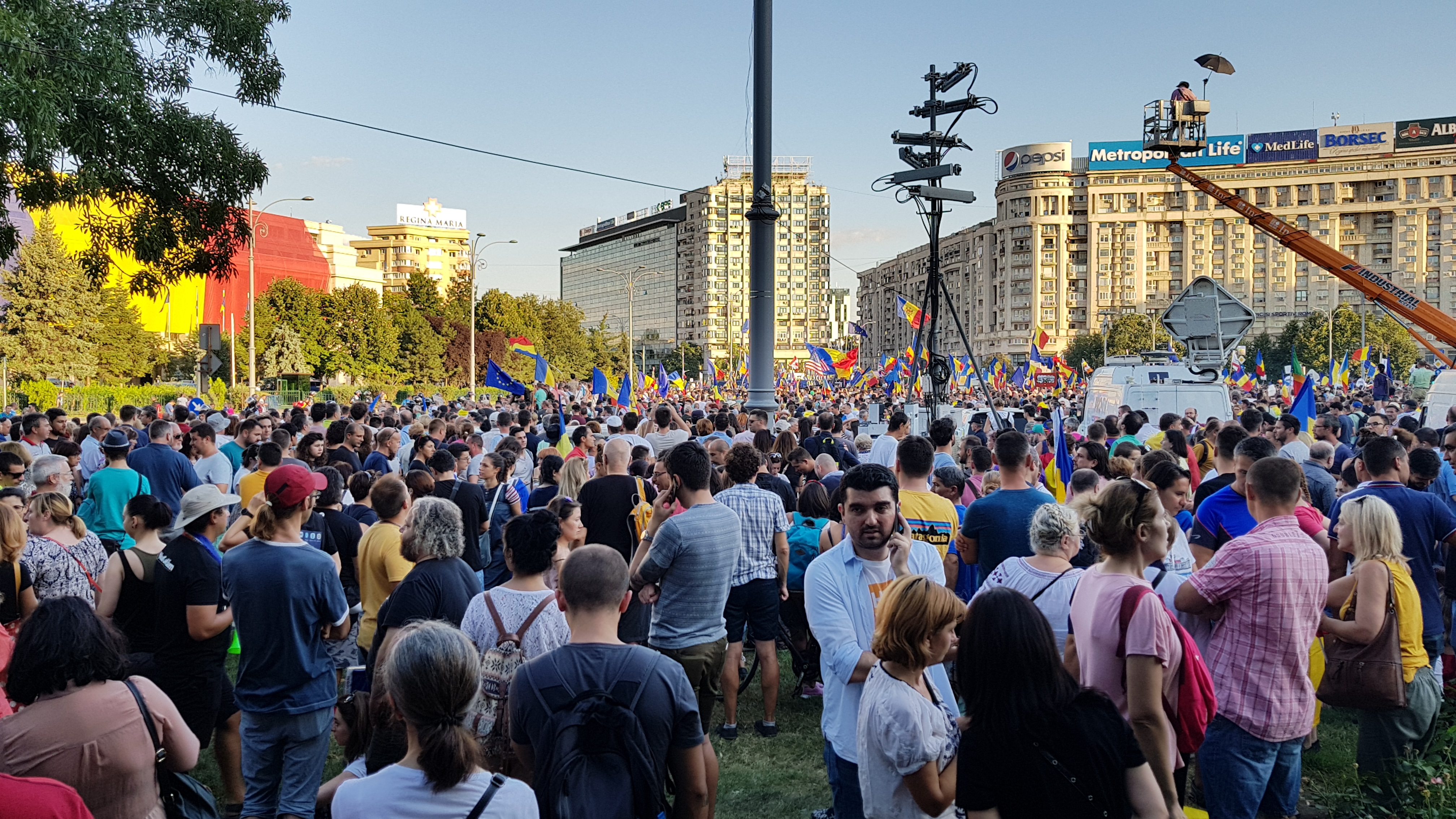 10 August -Protest against corruption, Bucharest 2018, Victory Square